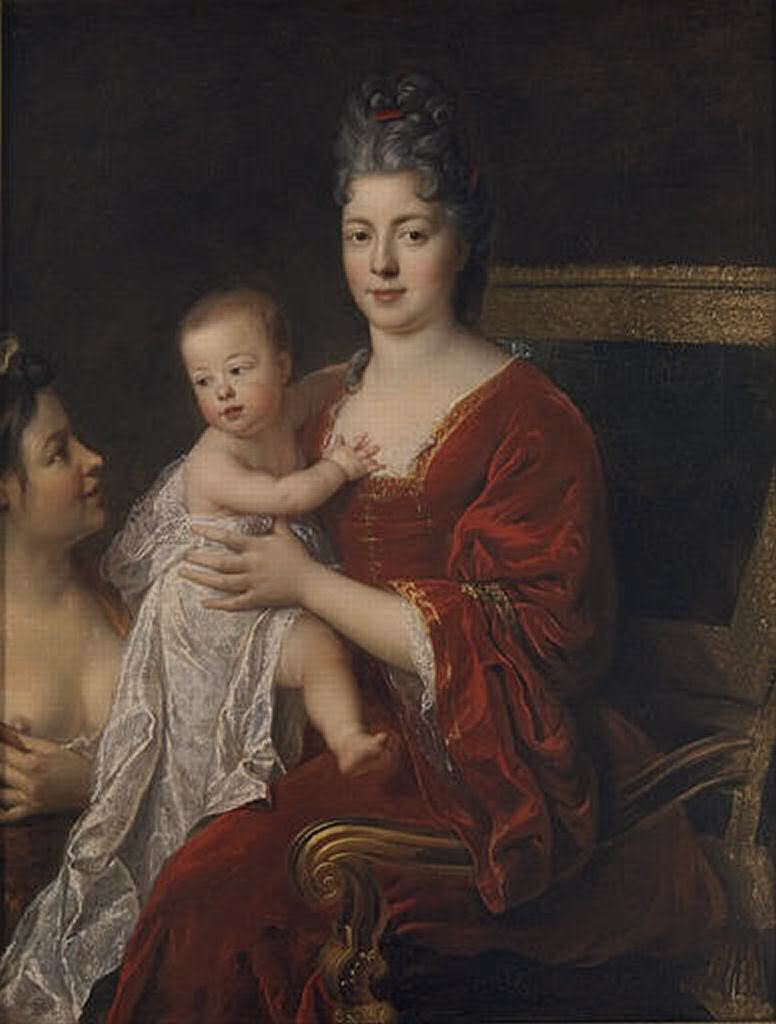 Portrait of Marie Adélaïde of Savoy with her son, the futur Louis XV